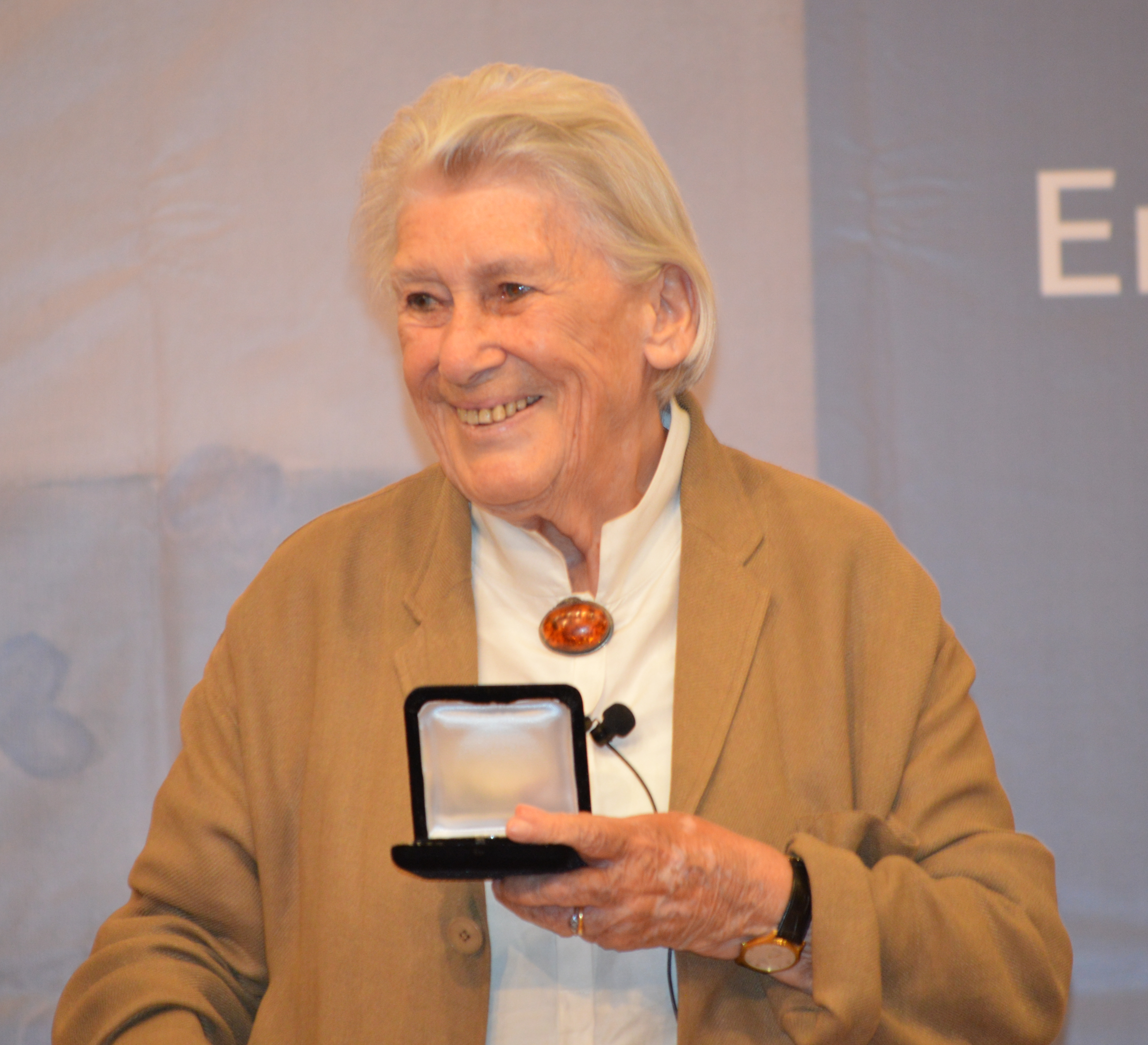 Joy Laville at the presentation of the Bellas Artes Medal at the Palacio de Bellas Artes in Mexico City